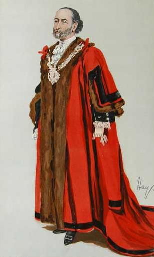 Caricature of Sir James Whitehead. Caption read "Bonnie Westmoreland".